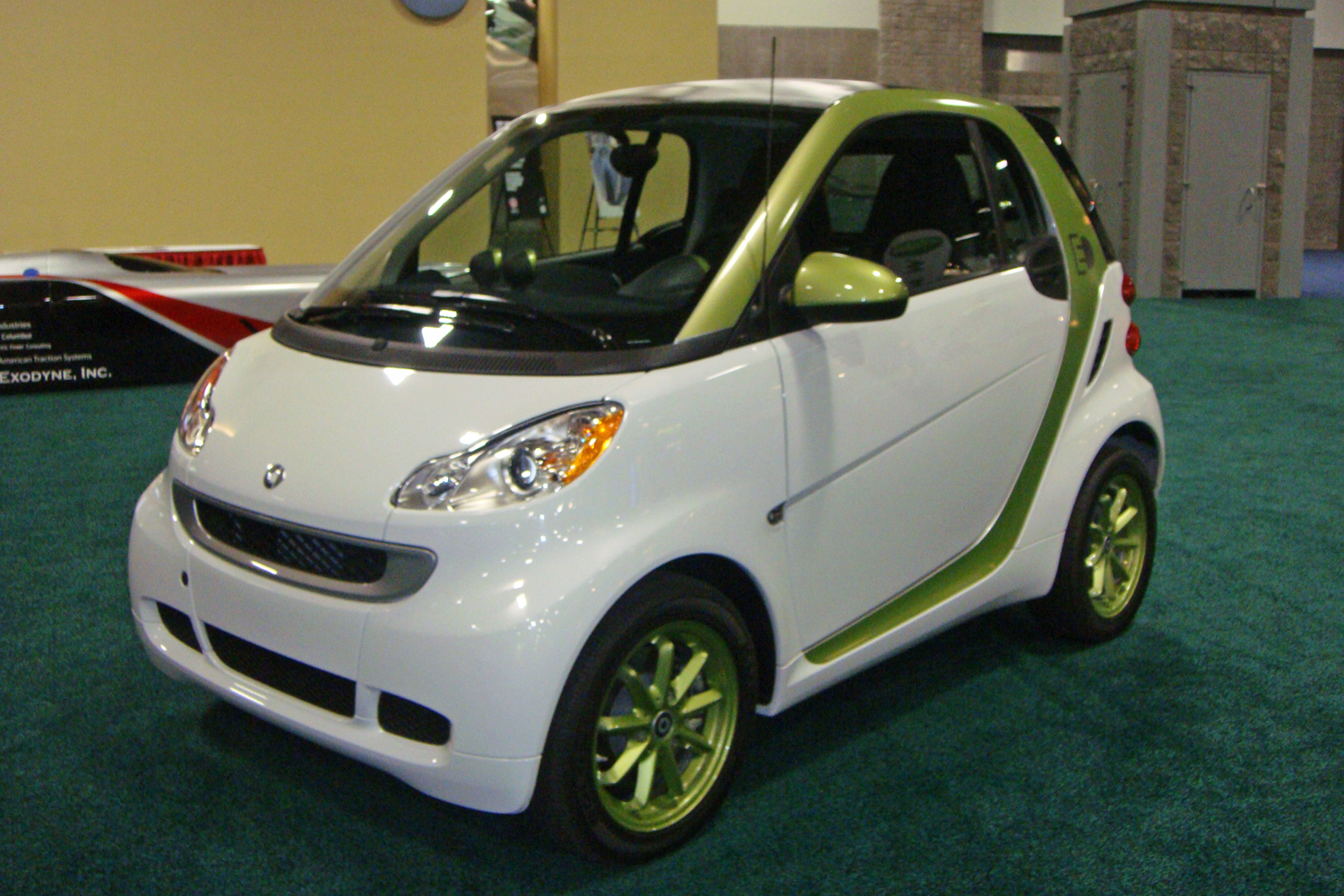 Smart ED electric car exhibited at the 2011 Washington Auto Show